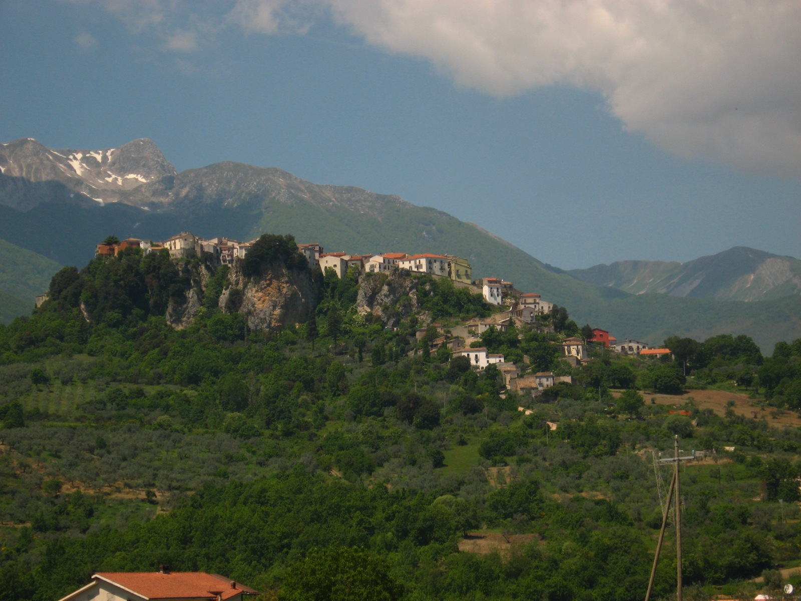 Castel San Vincenzo (IS)